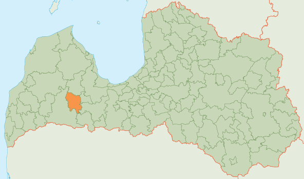 Map of Brocēni